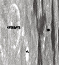 Hansen lunar crater as seen from Earth with satellite craters labeled